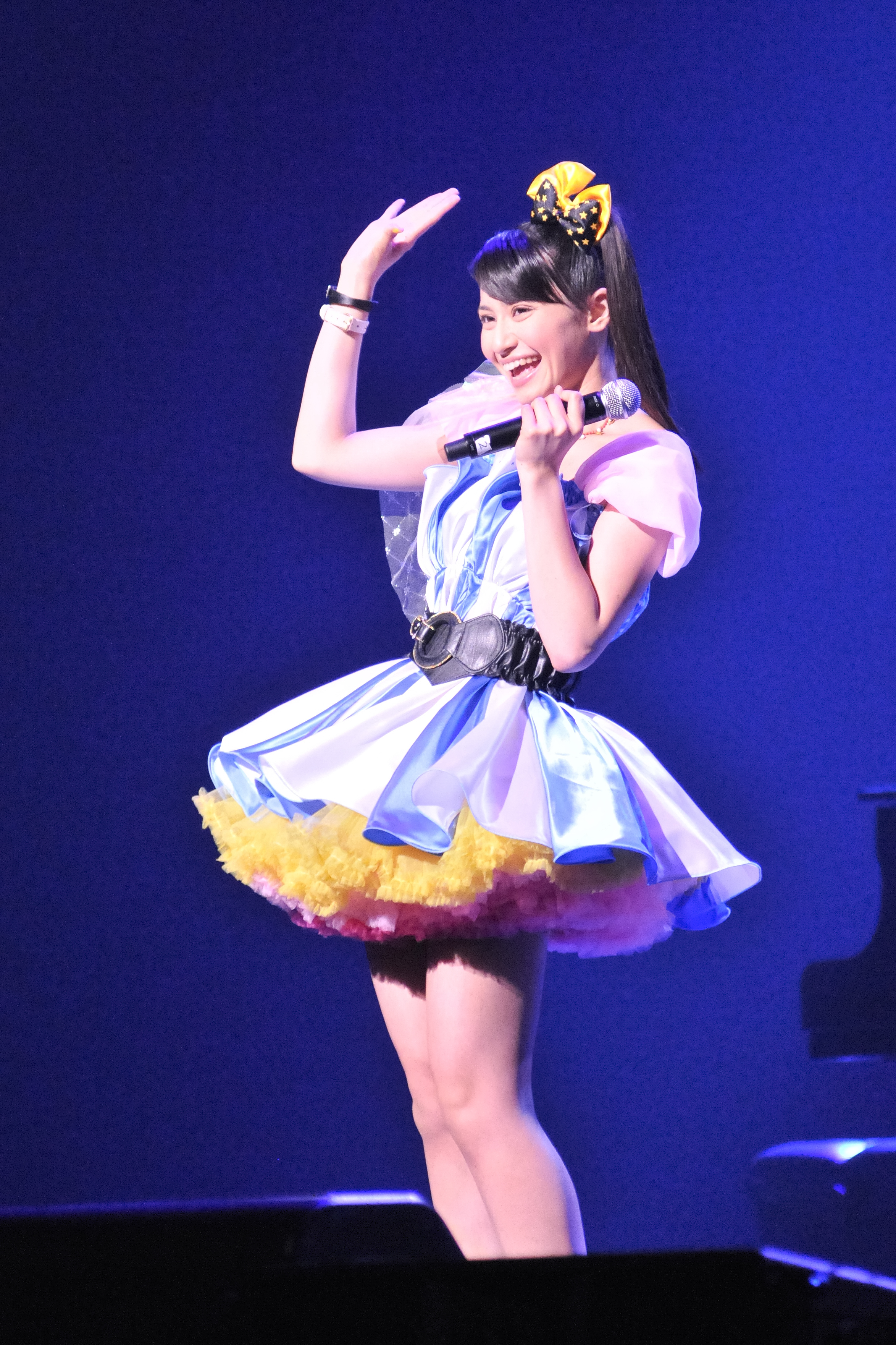 Megumi Nakajima Concert in Anime Expo 2010 at Nokia Theater LA Live